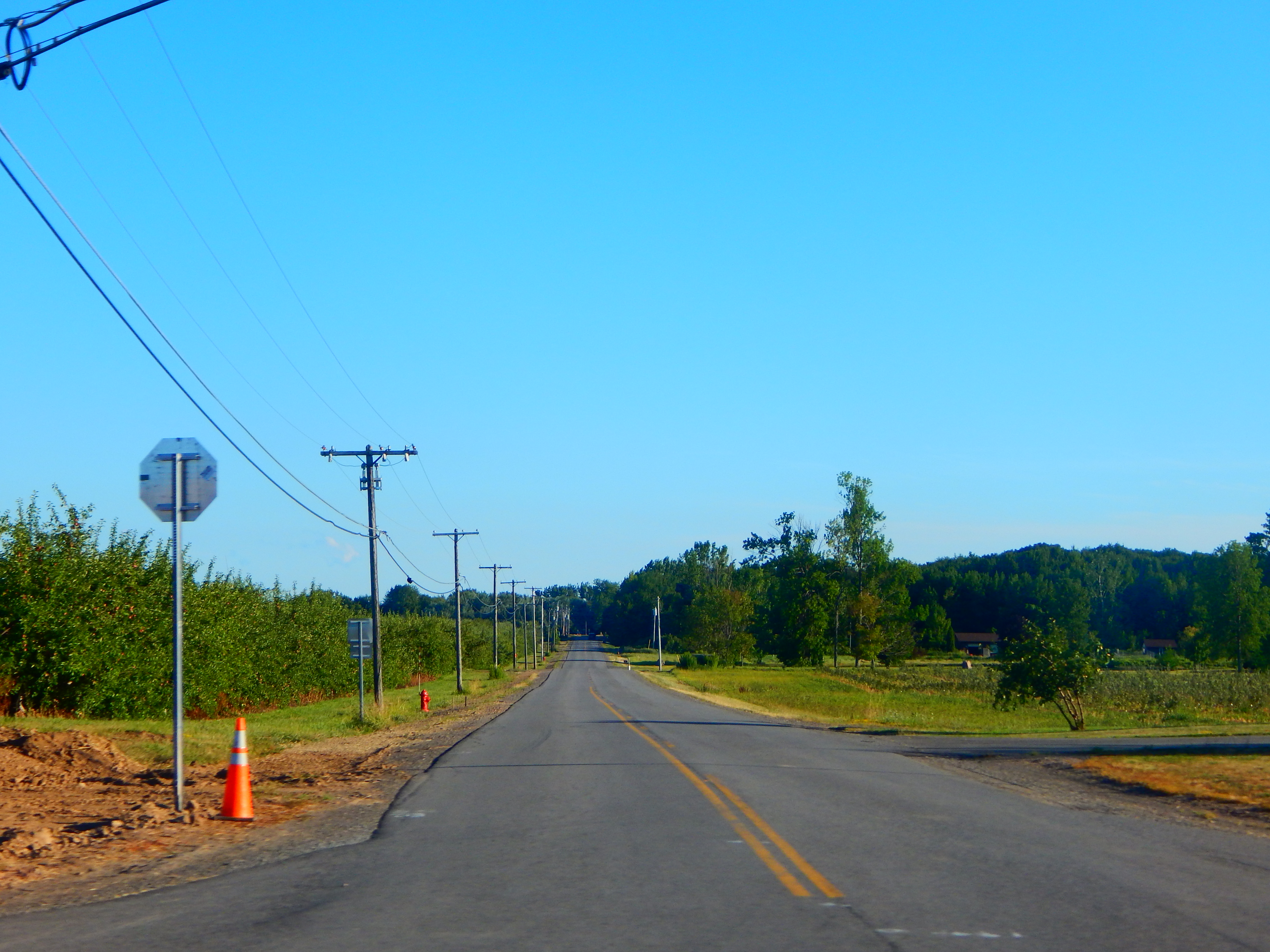 NY 279 southbound from NY 18 in Carlton, New York.